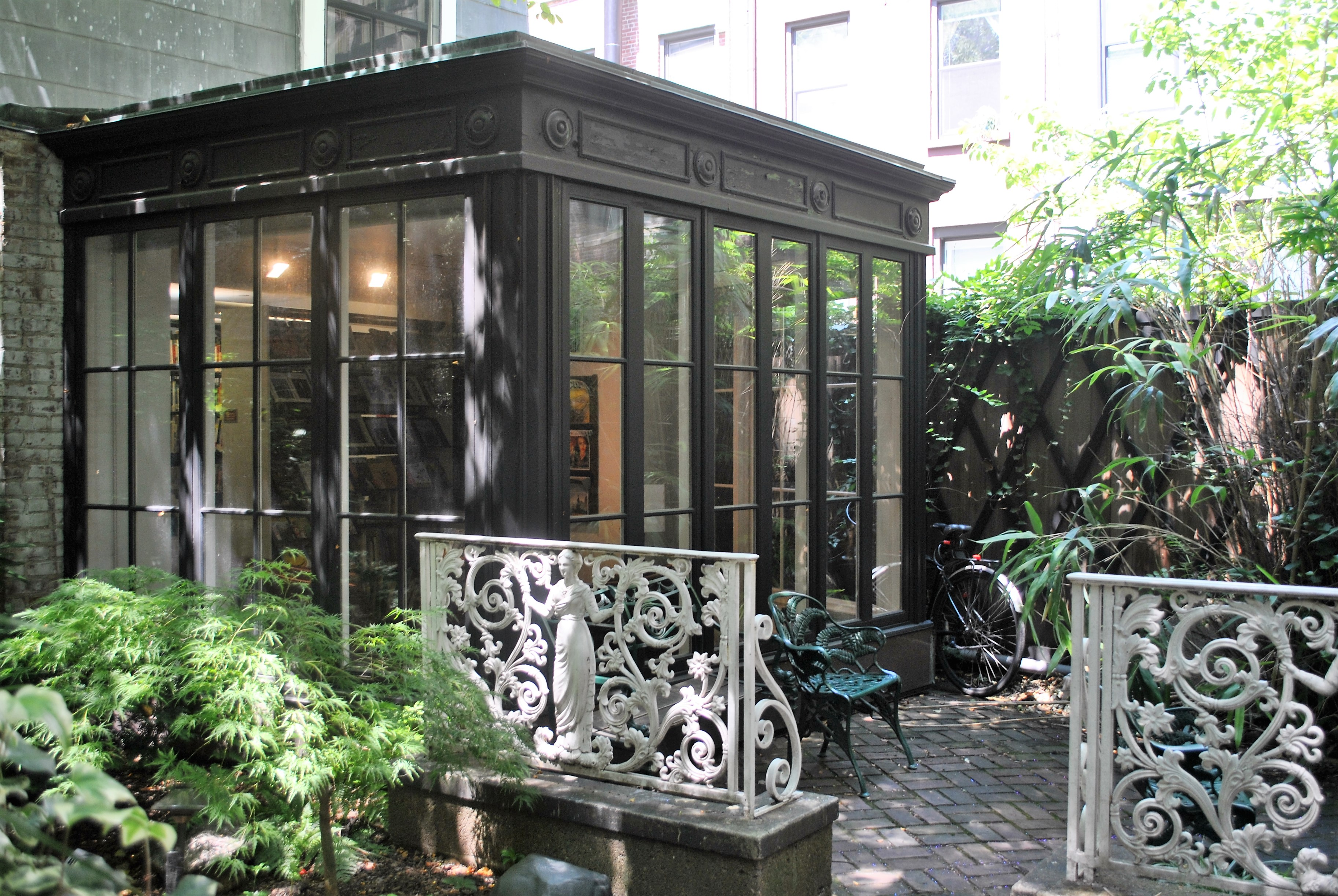 Image originally published in Queer Places: Retracing the Steps of LGBTQ people around the World Authored by Elisa Rolle